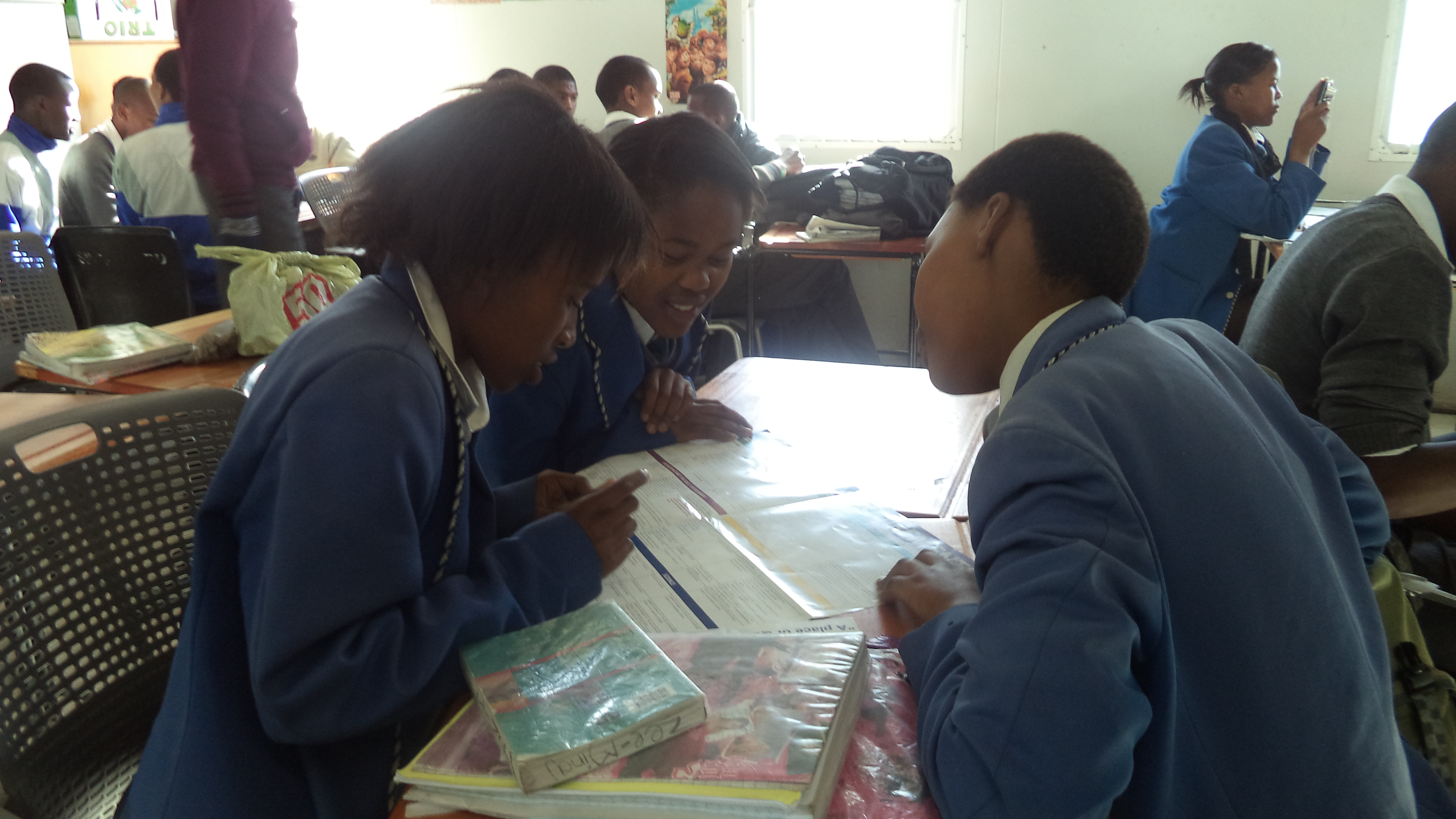 Sinenjongo High School has very dedicated learners despite the conditions that they learn under. Grade 12